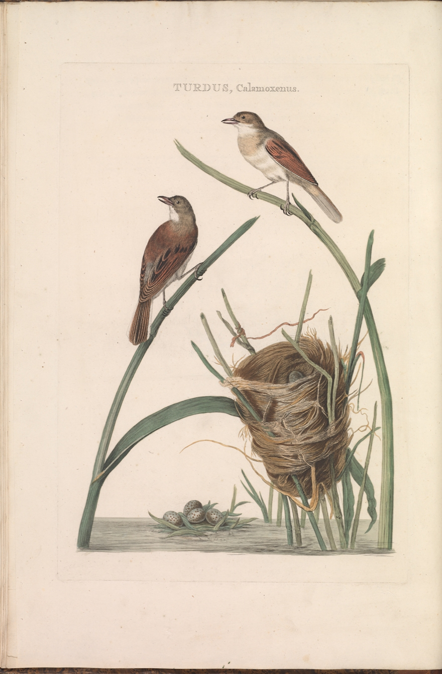 Plate 52 from the Nederlandsche vogelen by Nozeman and Sepp.